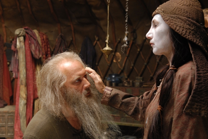 Maxim Suhanov and Roza Hairullina in the film "The Horde"